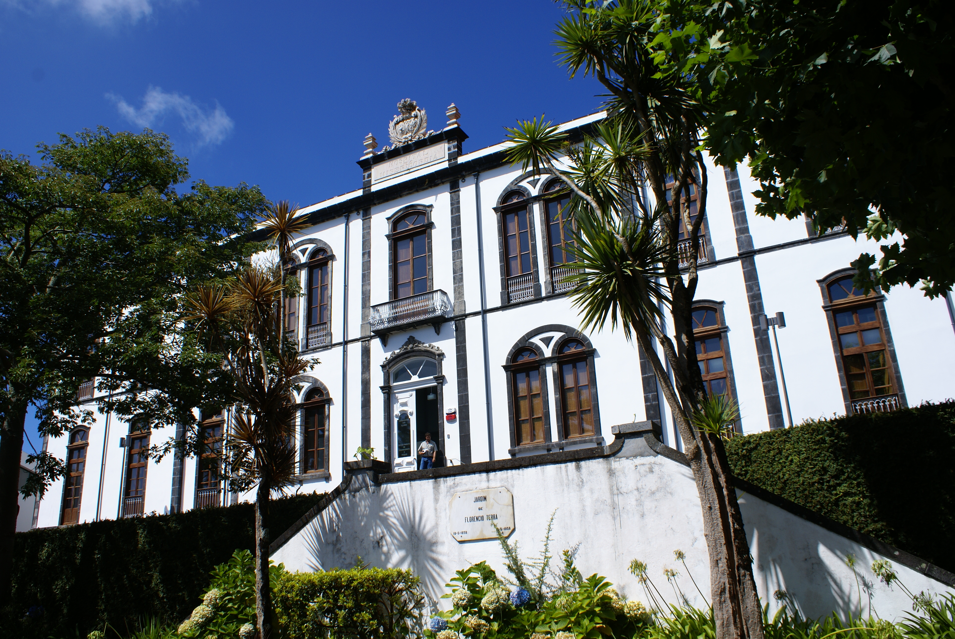 Sede do Departamento de Oceanografia e Pescas sigla DOP da Universidade dos Açores, Concelho da Horta, ilha do Faial, Açores, Portugal